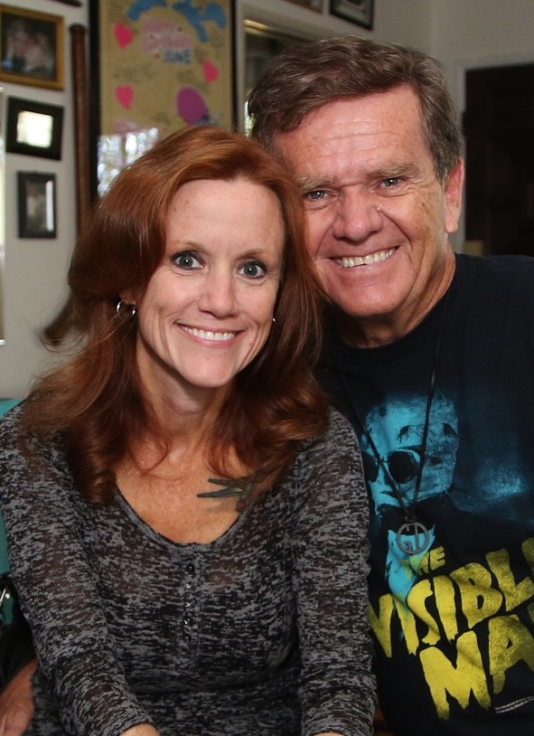 Butch Patrick & Leila Murray